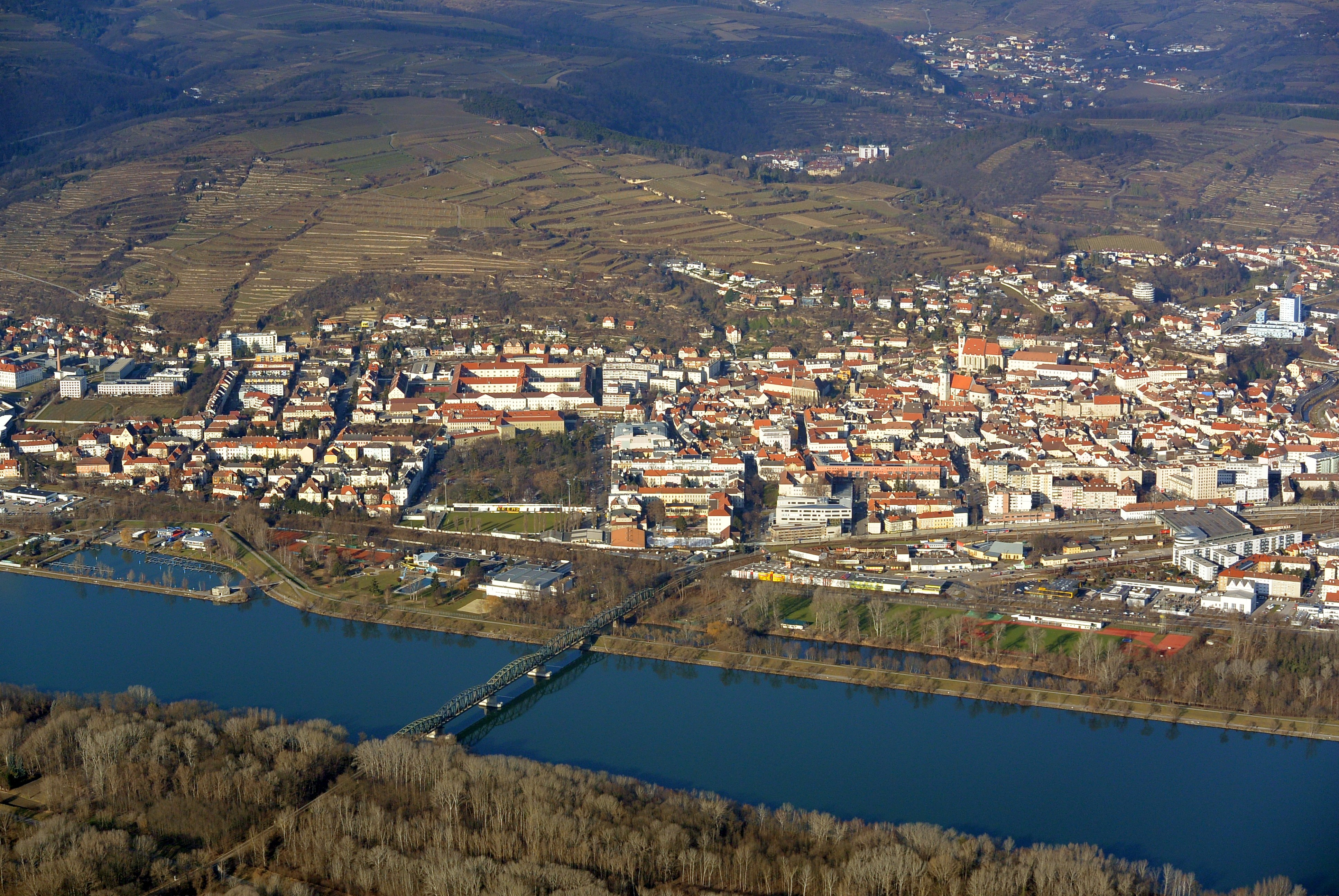 Aerial view of Krems an der Donau, Lower Austria